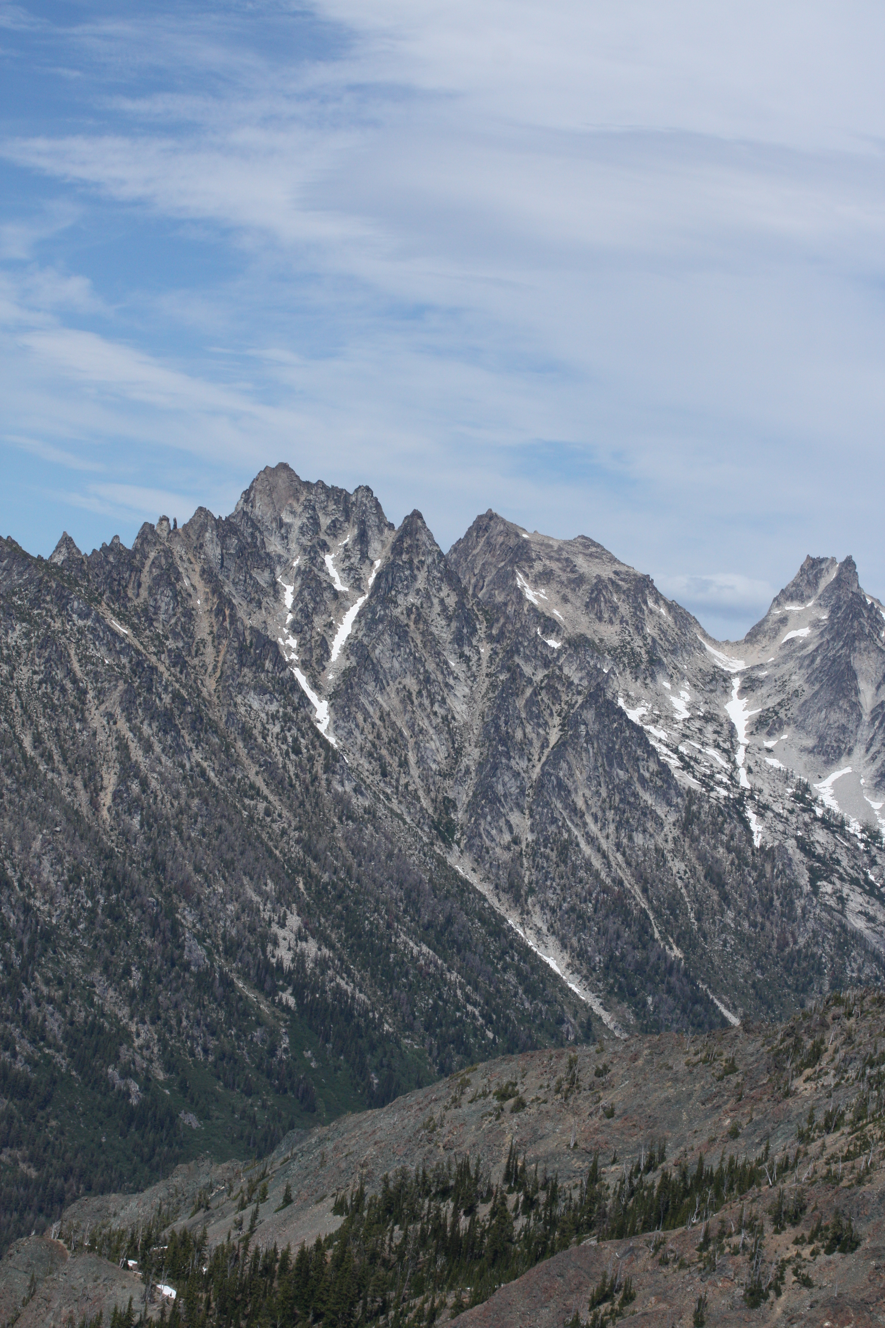 Argonaut Peak (8453 feet, 2576 m, left center); Colchuck Peak (8705 feet, 2653 m, right center); Dragontail Peak (8840+ feet, 2694+ m, right)